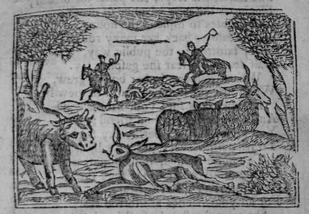 An anonymous woodcut of John Gay's "The hare and many friends" in the various 18th century editions of The Museum for young gentlemen and ladies